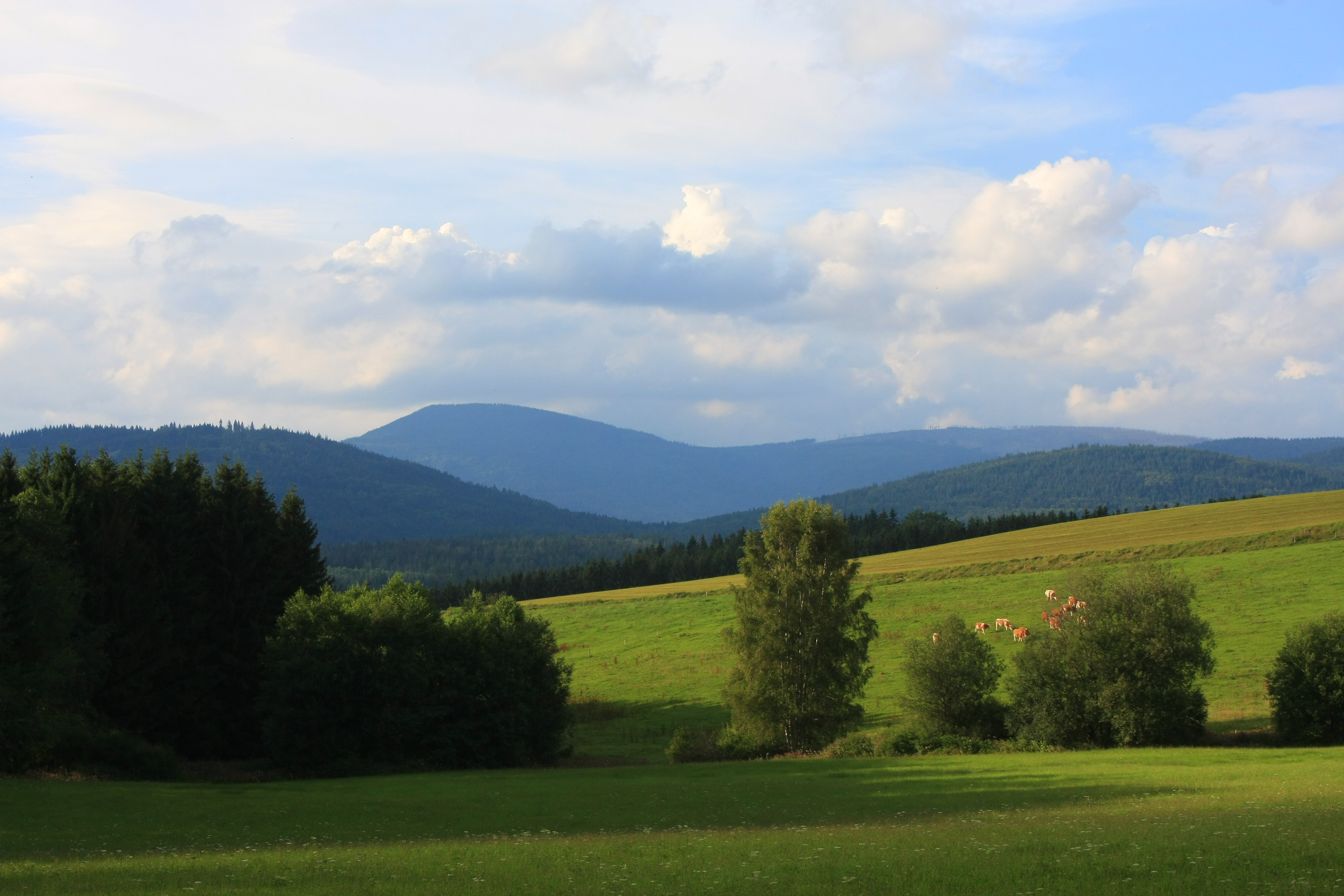 Falkenstein, Bavarian Forest Nationalpark